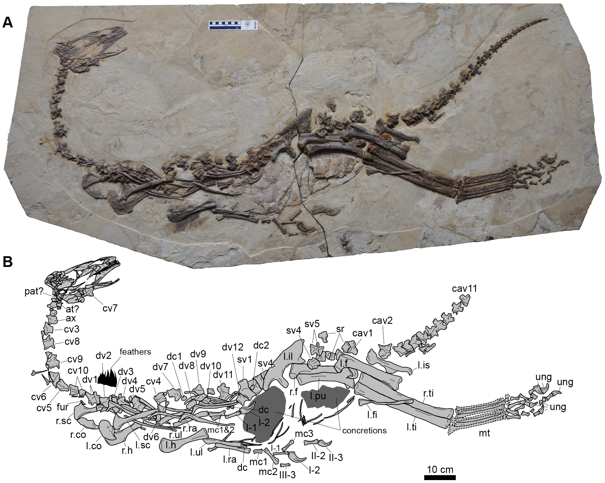 A photograph of the skeleton of Jianchangosaurus yixianensis gen. et sp. nov. (41HIII-0308A) (A) and line drawing (B). Abbreviations: at, atlas; ax, axis; cav, caudal vertebra; cv, cervical vertebra; co, coracoid; dc, distal carpal; dv, dorsal vertebra; l., left; f, femur; fi, fibula; fur, furcula; hu, humerus; il, ilium; is, ischium; pu, pubis; ra, radius; sc, scapula; ti, tibia; ul, ulna; mc, metacarpal; mt, metatarsal; mxf, maxillary fenestra; pat, proatlas; r., right; sr, sacral rib; sv, sacral vertebra; ung, ungual. All elements of the skeleton are preserved except the distal half of the caudal vertebrae. Dashed lines of metatarsals indicate areas that have been reconstructed. The middle portion of the neck, from the fourth to ninth cervical vertebrae, and the pedal phalanges have been repositioned. The rest of elements of this specimen are in the original position.